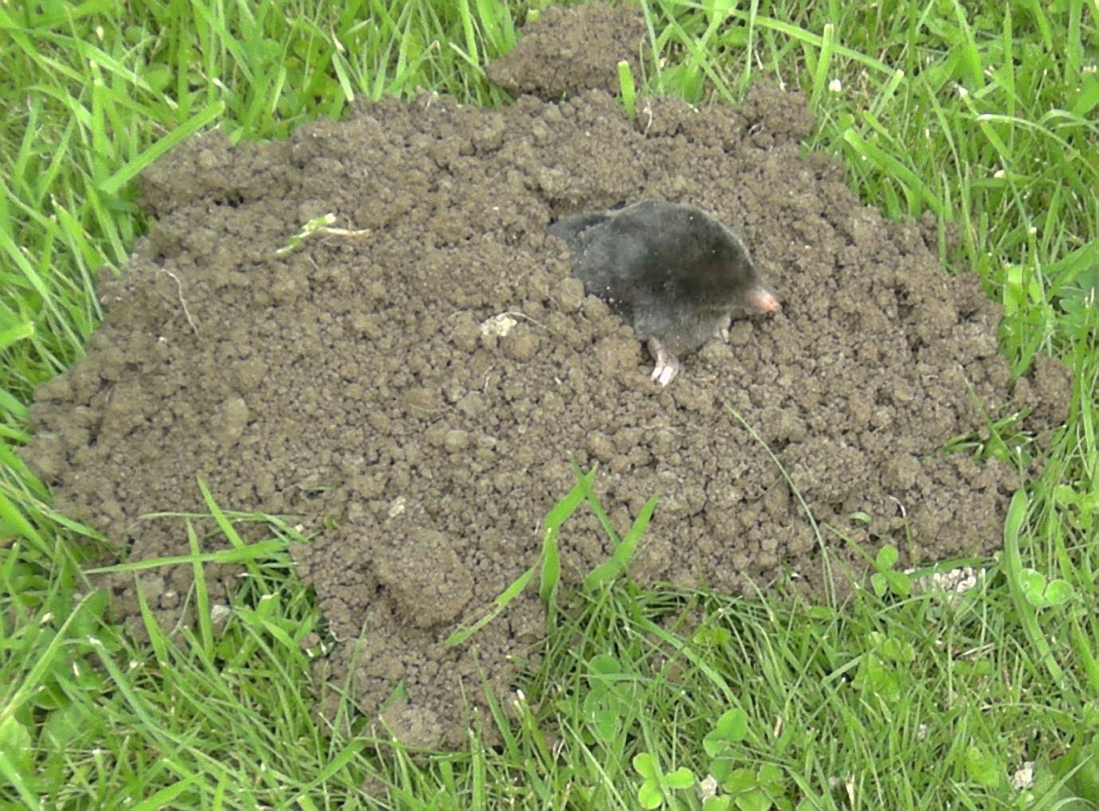 Mole - Mole hill.